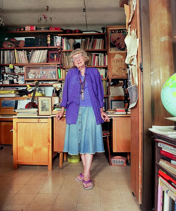 Art of Israel